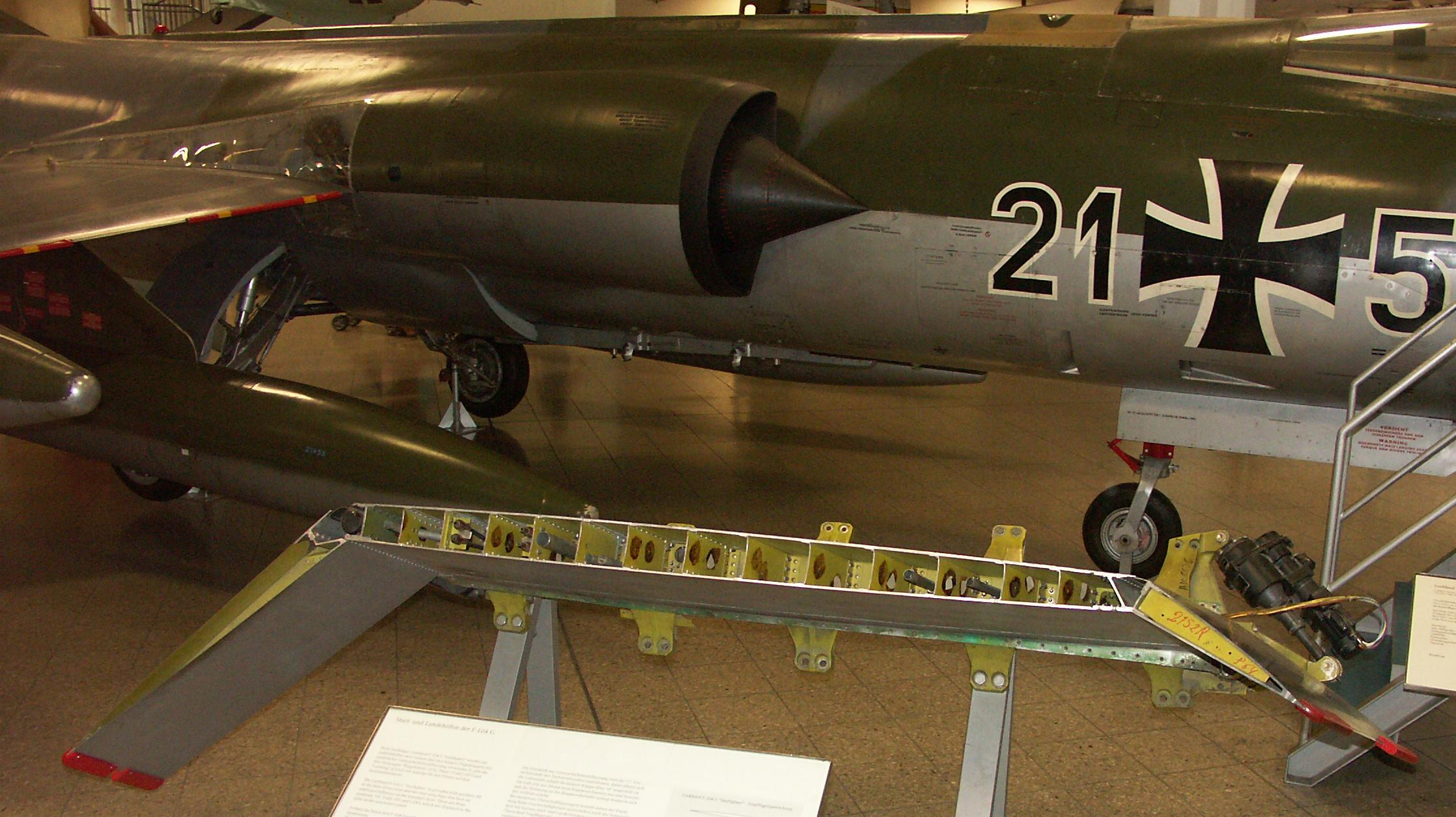 Wing section of a F-104 aircraft at the Deutsches Museum Munich